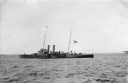 A postcard of the Swedish torpedocruiser HMS Jacob Bagge, in Karlskrona.